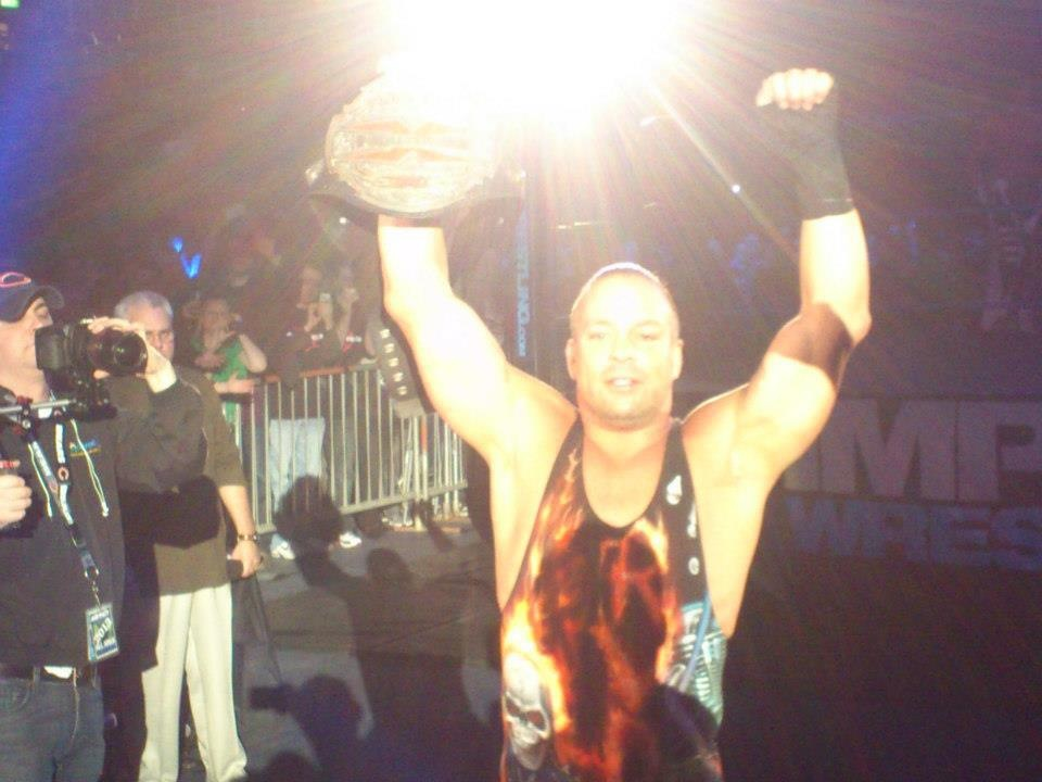 TNA X-Division Champion Rob Van Dam At Braehead